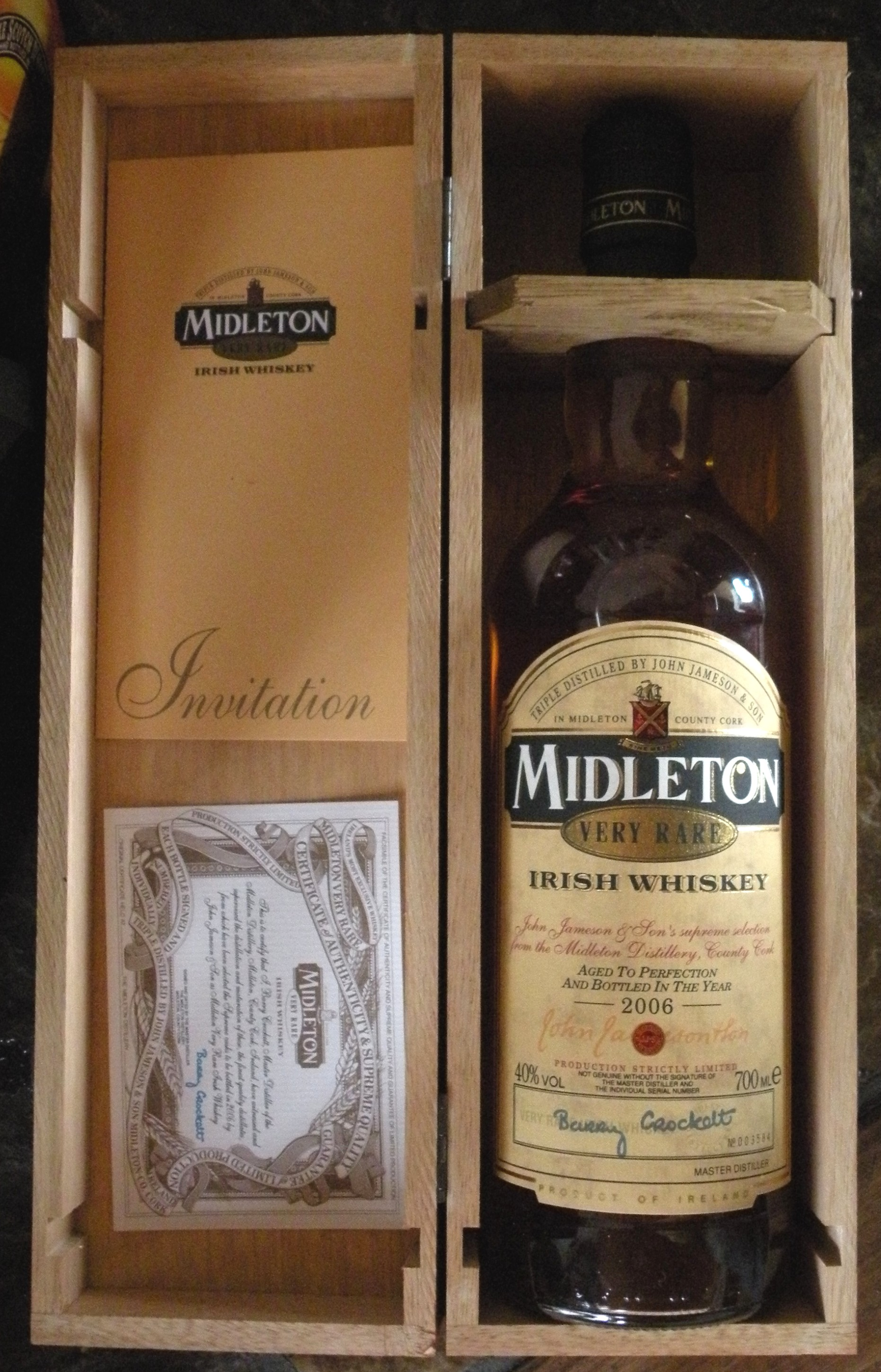 Bottle Midleton Irish whiskey in wooden box